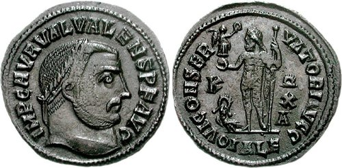 Aurelius Valerius Valens. Co-emperor of Licinius, AD 316-317. Æ Follis (3.36 g, 12h). Alexandria mint, 1st officina. IMP C AVR VAL VALENS P F AVG, laureate head right / IOVI CONSER-VATORI AVGG, Jupiter standing left, holding Victory on globe and scepter; to left, eagle standing right, holding wreath in its beak; K-(wreath)/X/A//ALE. RIC VII 19.